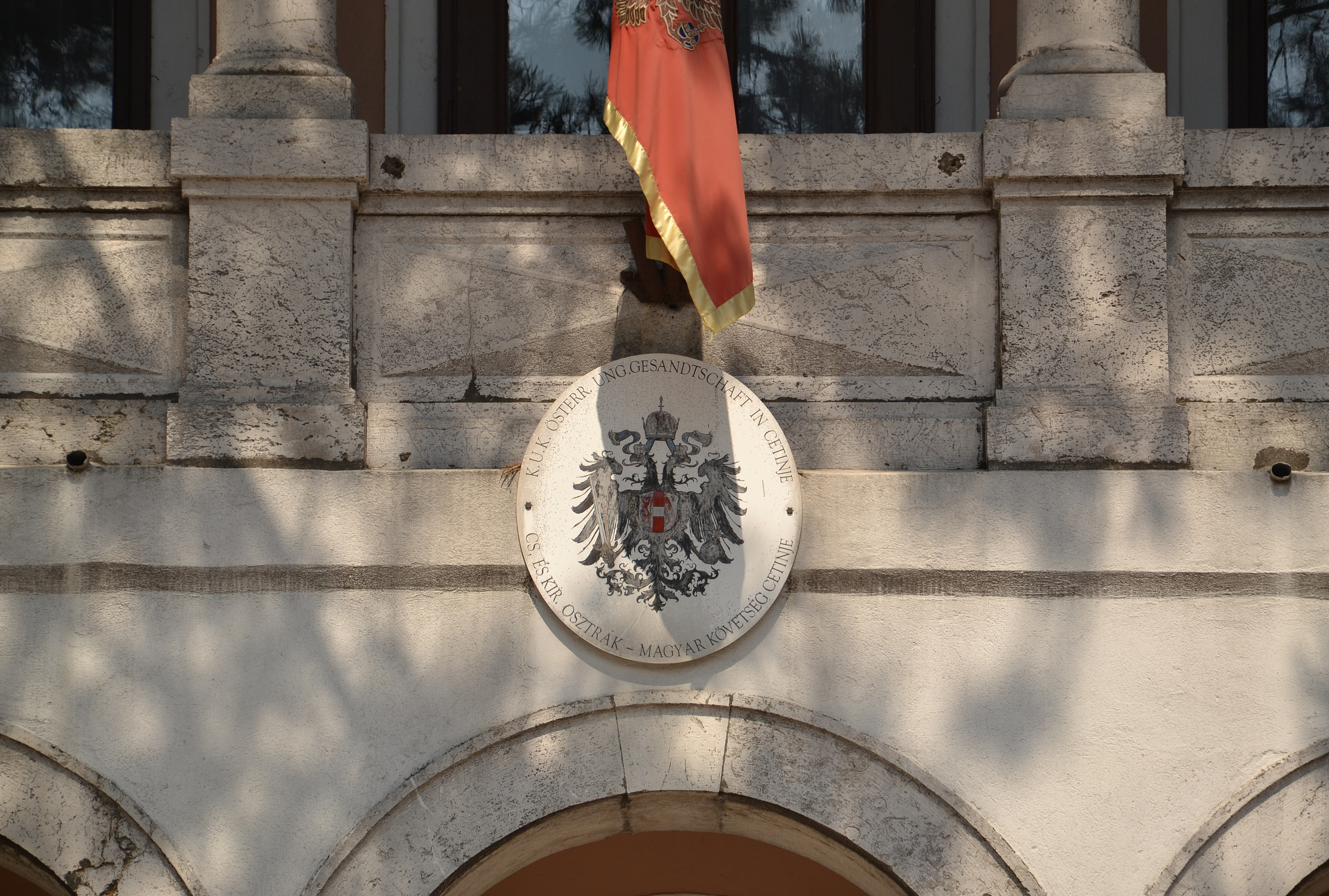 Former Embassy of Austria-Hungary In Cetinje, Montenegro, Montenegro